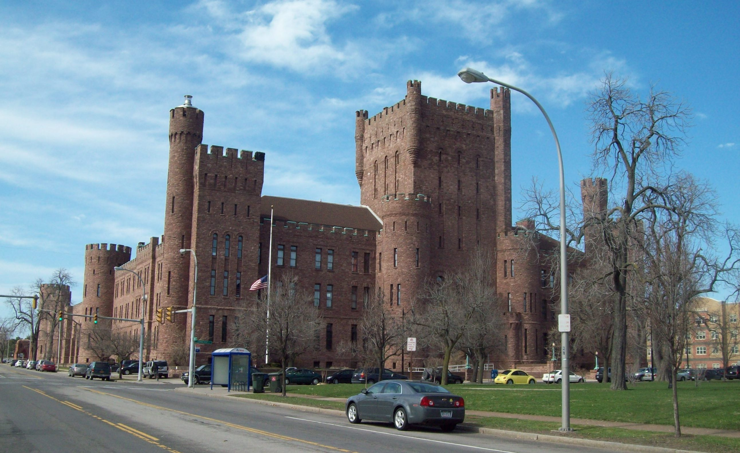 Connecticut Street Armory, Buffalo NY, April 2011